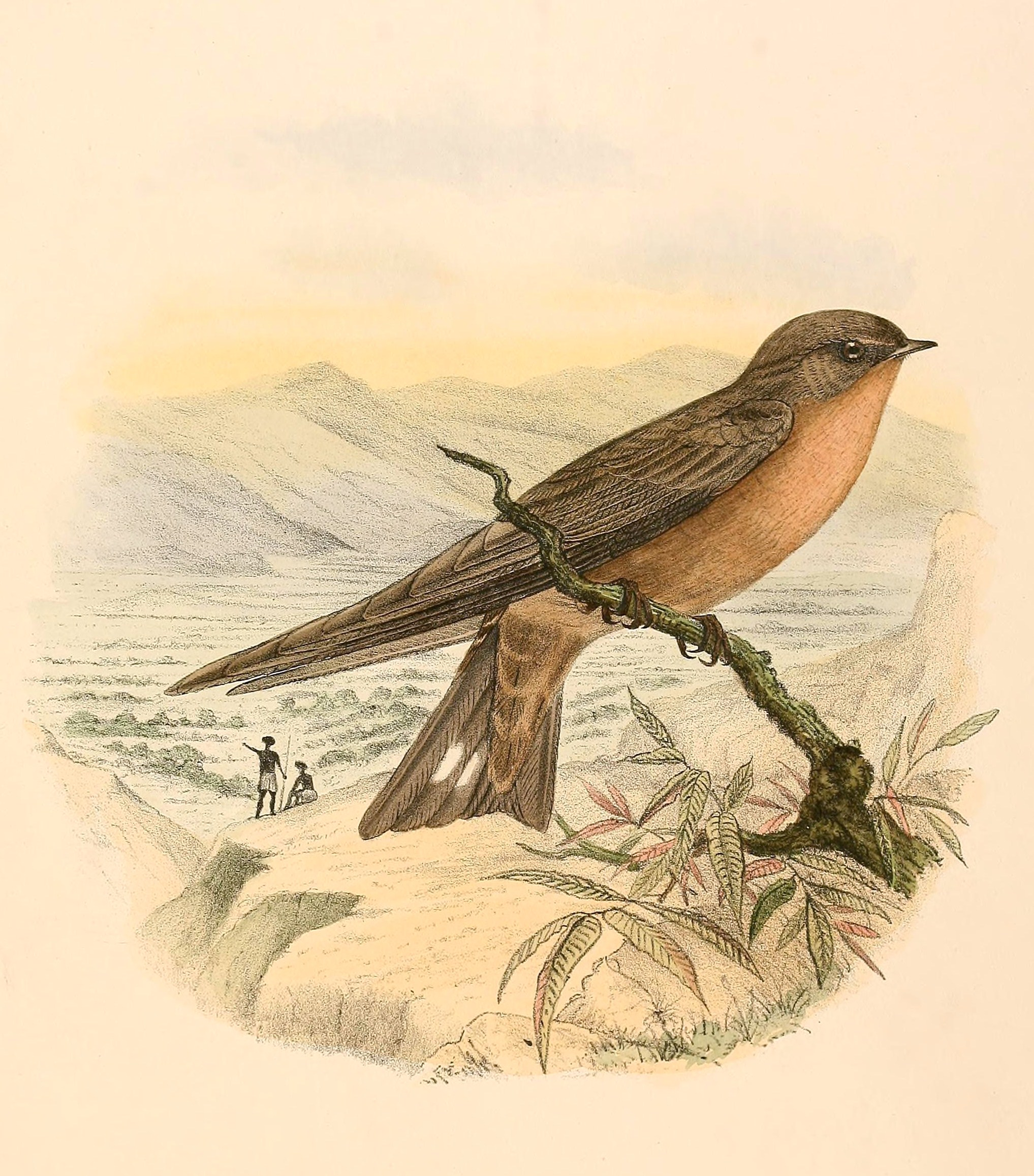 « Cotile fuligula » = Ptyonoprogne fuligula (Rock Martin)